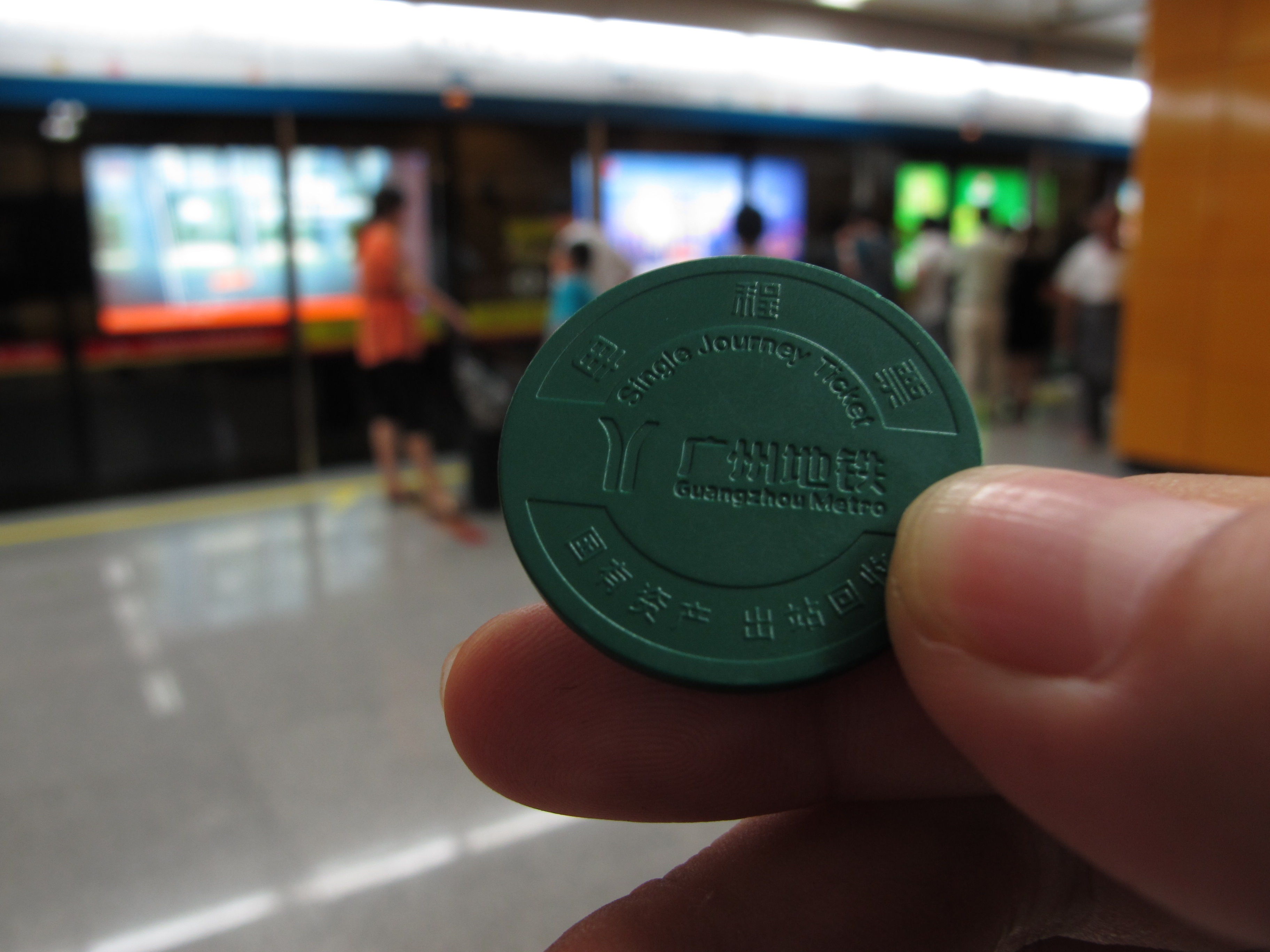 A single journey ticket of the Guangzhou Metro.